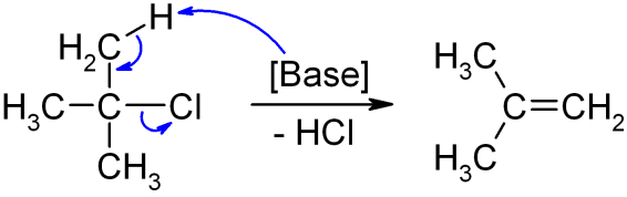 Elimination reaction of 2-chloro-2-methylpropane